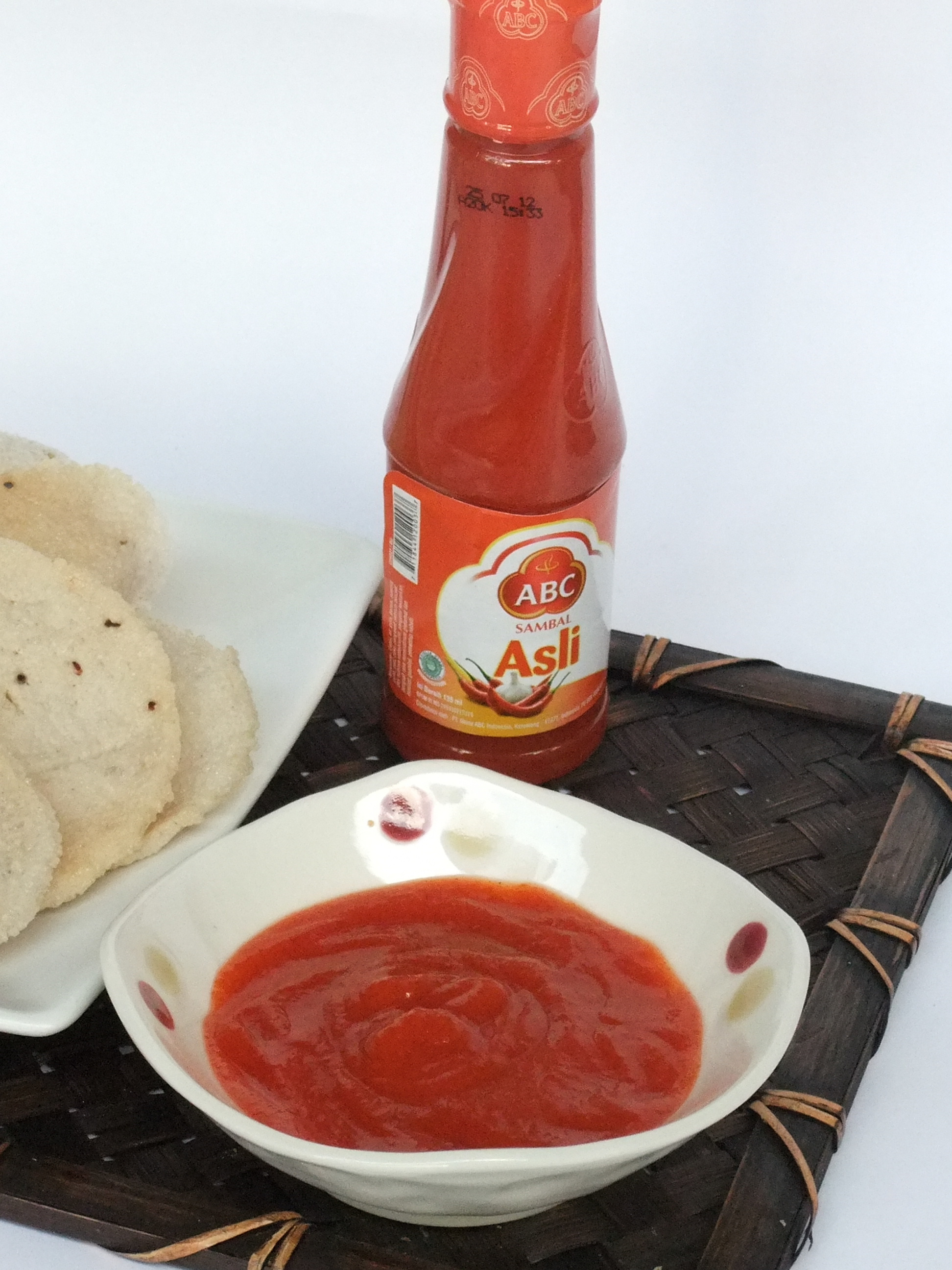 Sambal ABC